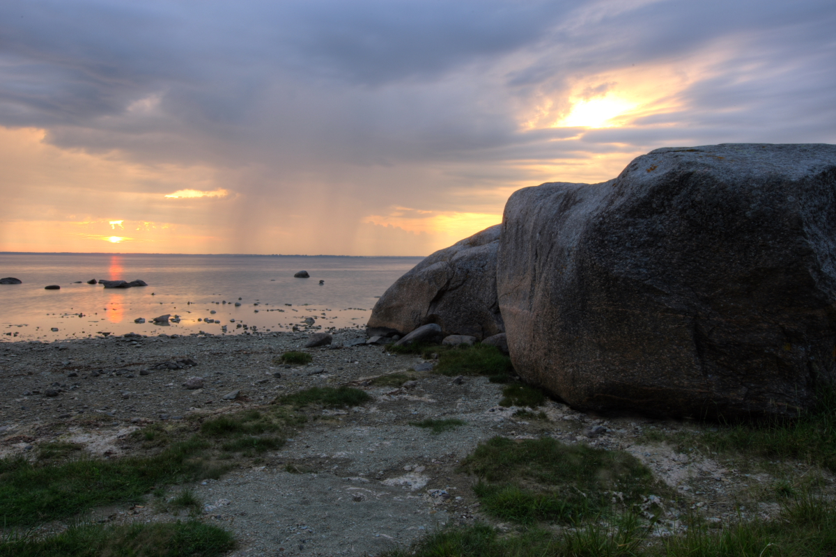 Nääri Stones, Lääne County, Estonia